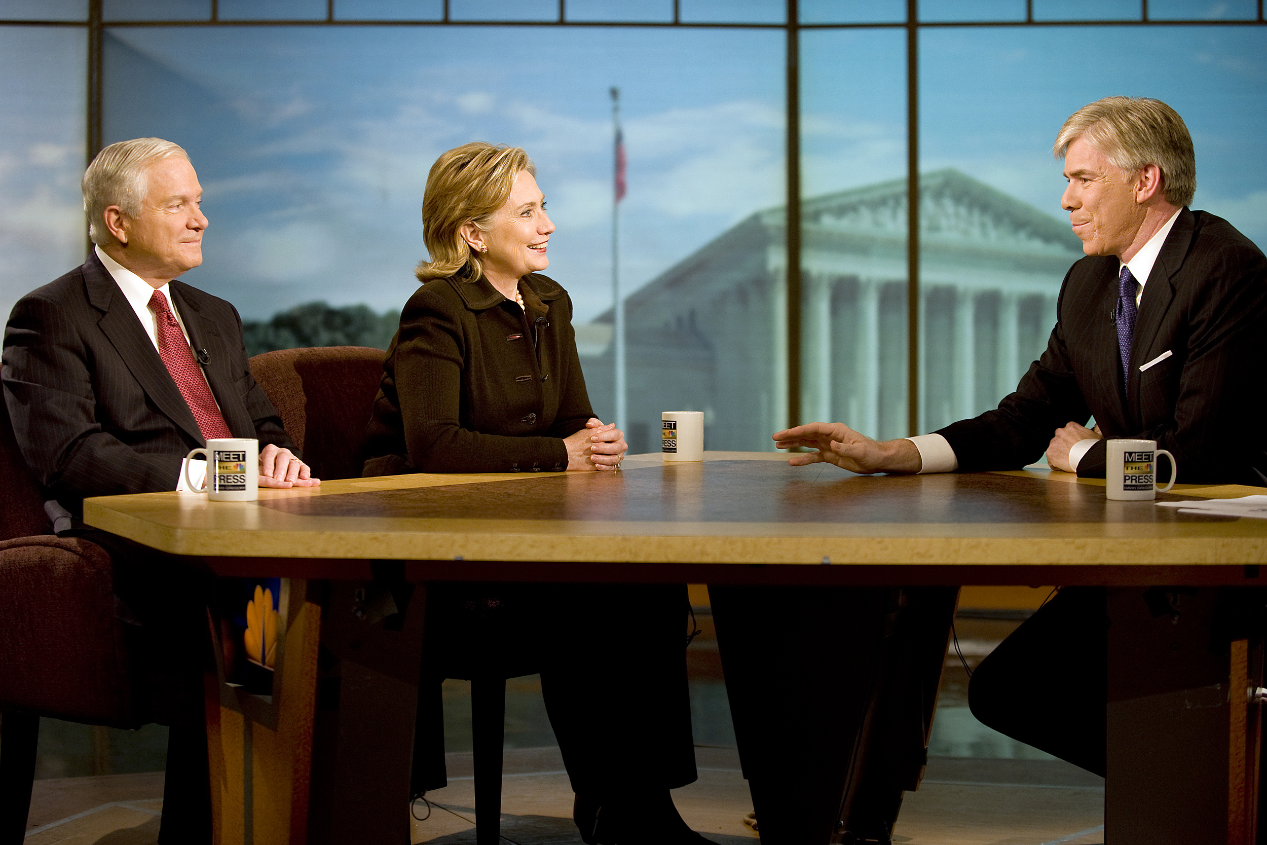 Defense Secretary Robert M. Gates and Secretary of State Hillary Rodham Clinton talk with NBC's "Meet the Press" host David Gregory in Washington, D.C., Dec. 5, 2009.